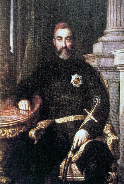 Painting of Kıbrıslı Mehmed Emin Pasha (1813–1871).